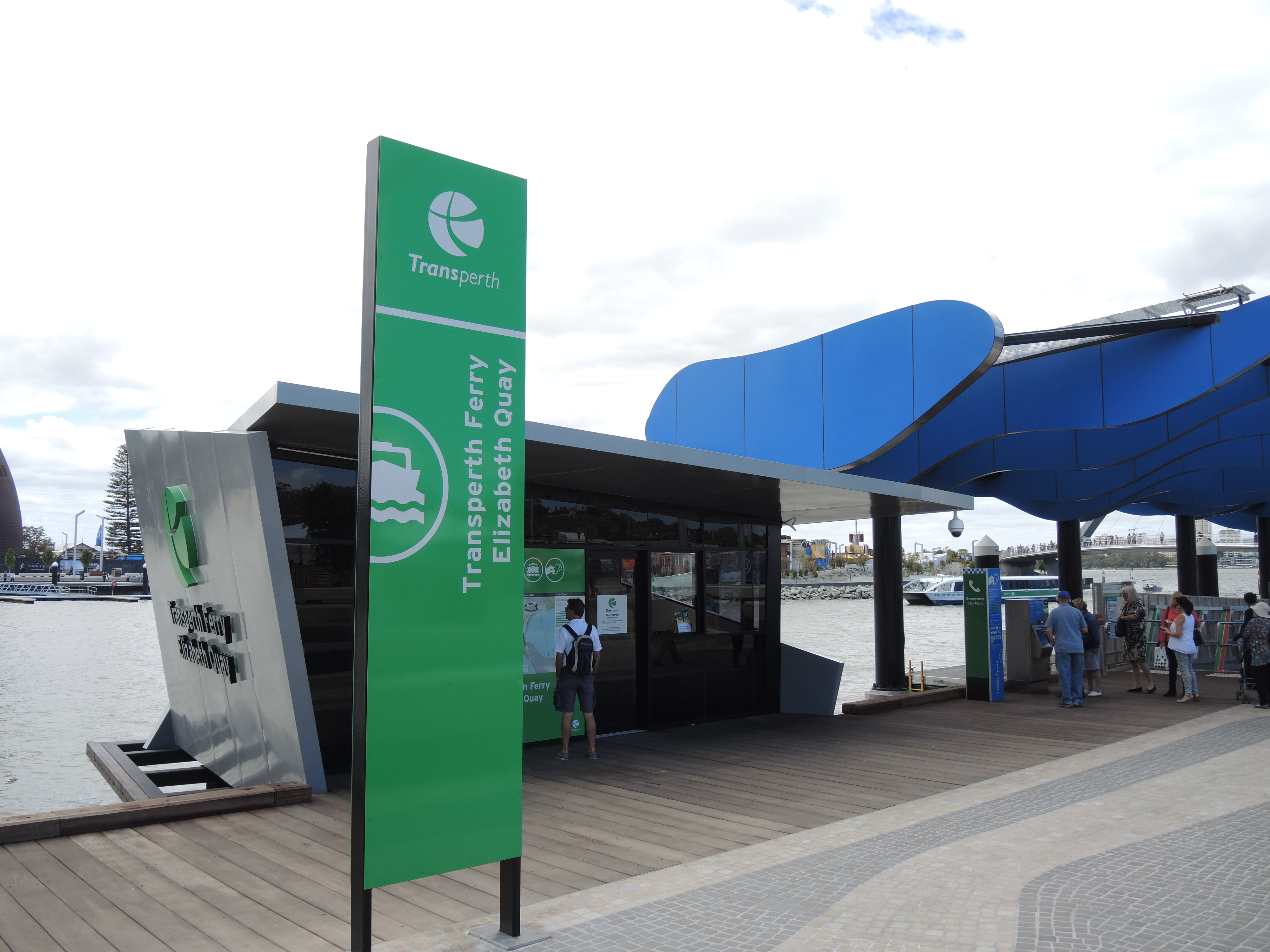 Elizabeth Quay in Perth, Western Australia, 1 February 2016. Transperth Ferry office.